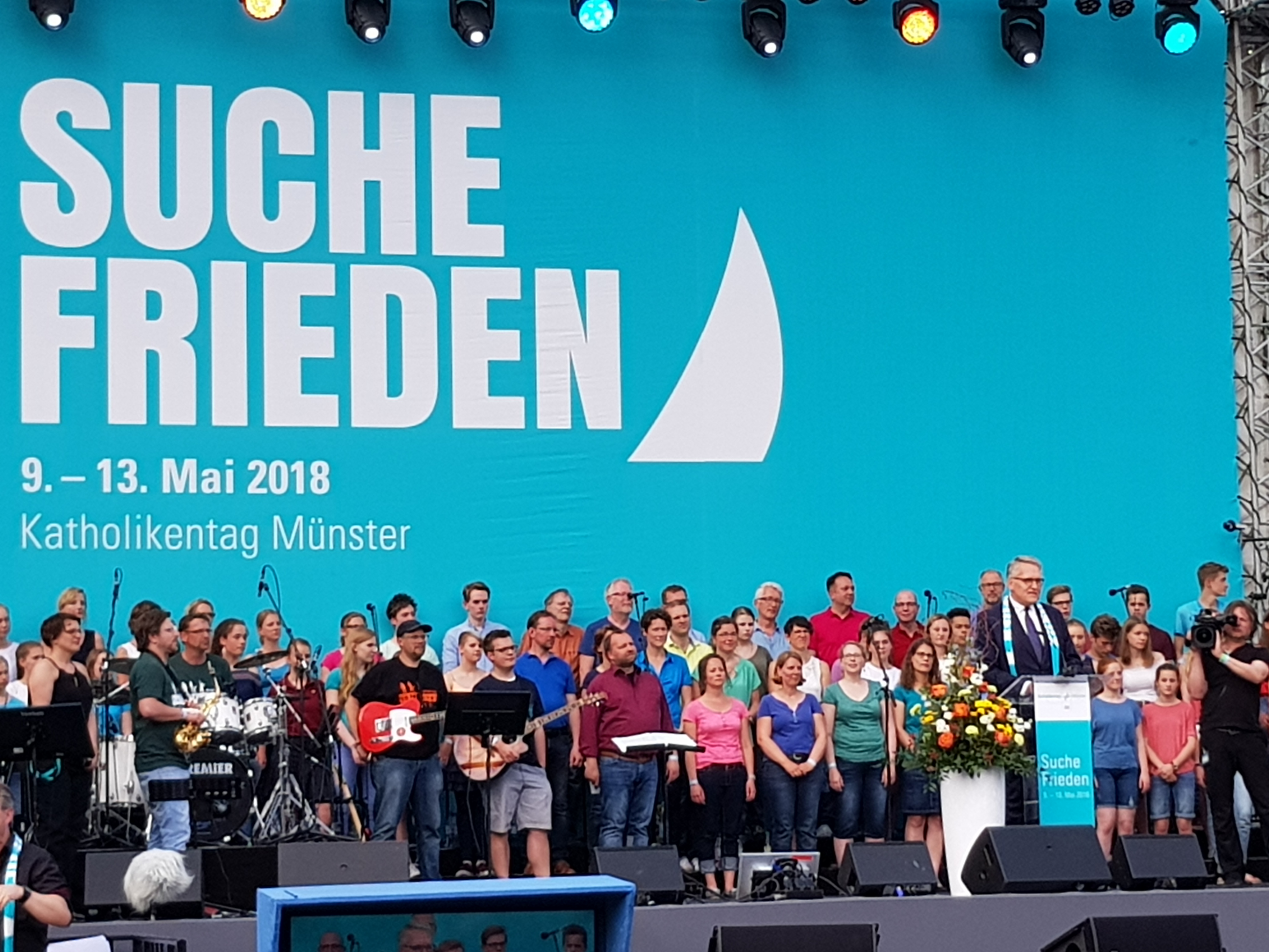 Professor Dr. Thomas Sternberg, Präsident des Zentralkomitees der deutschen Katholiken (ZdK), bei der Eröffnung des 101. Katholikentags in Münster.